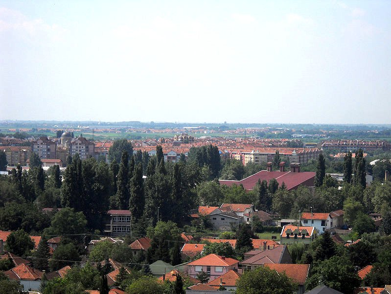 Panoramic view of Novo Naselje (Bistrica) neighborhood in Novi Sad.